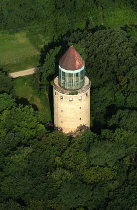 Water tower of the University of Gödöllő. - Gödöllő, Hungary